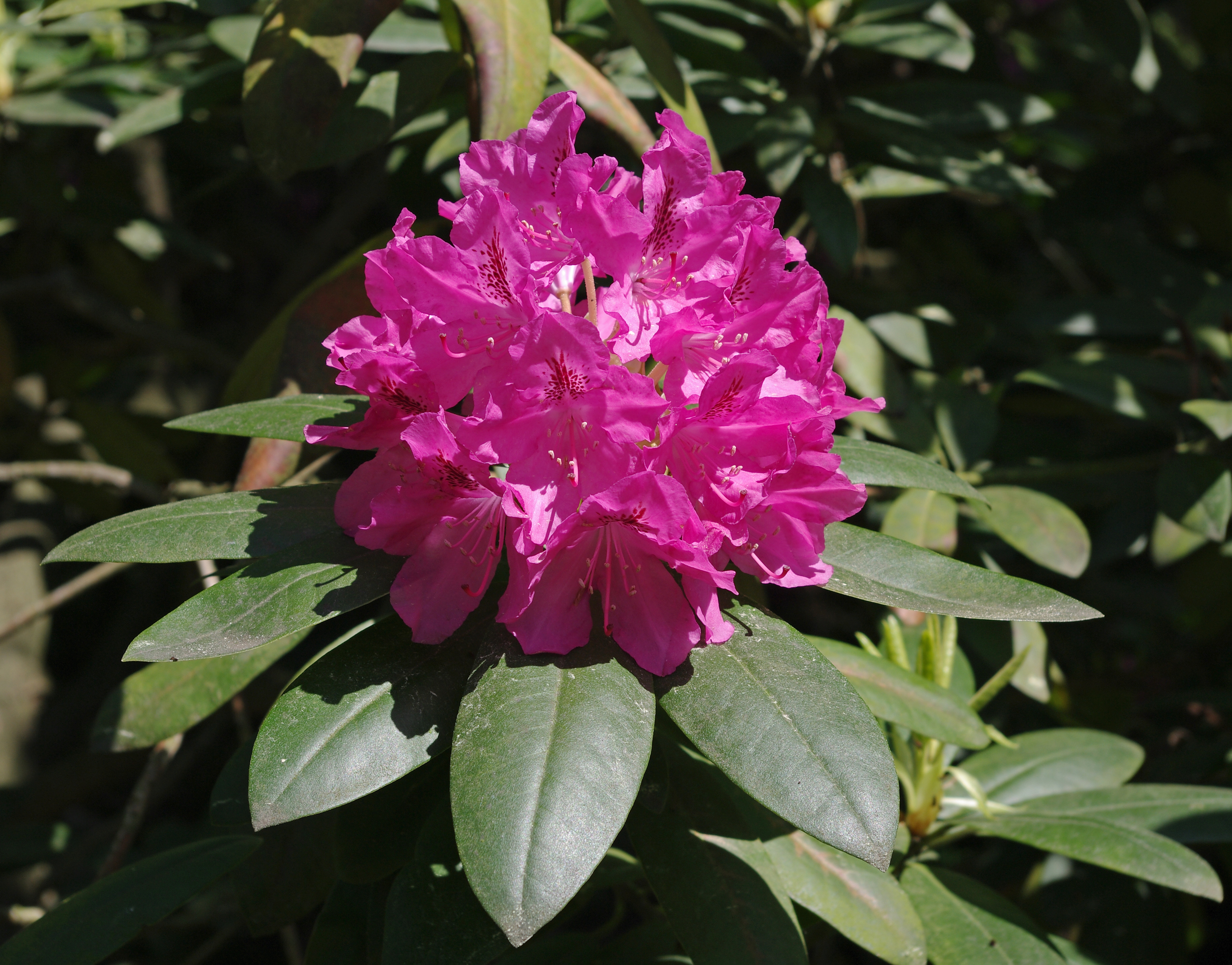 Catawba Rhododendron